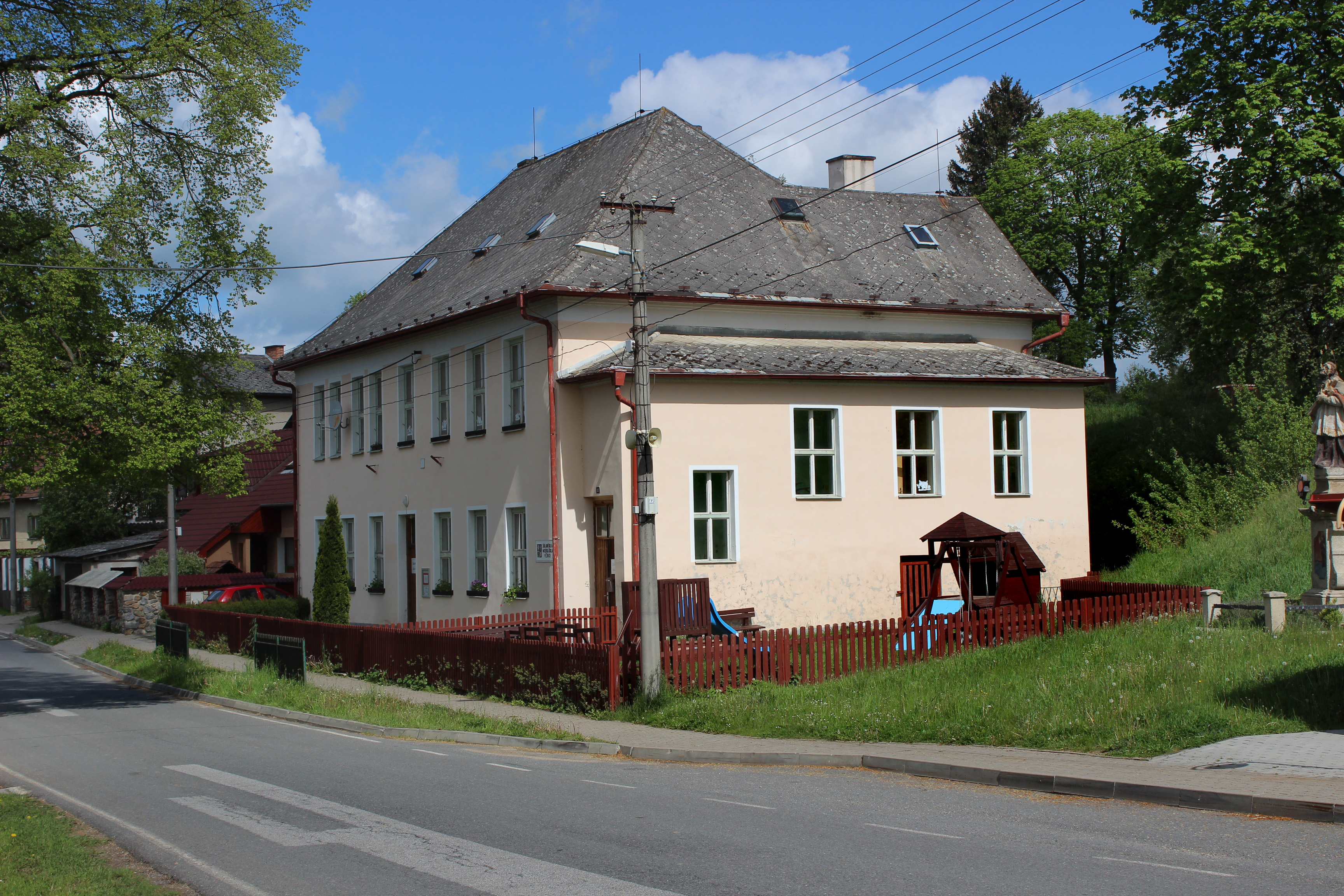 Věžnice village, Czech Republic